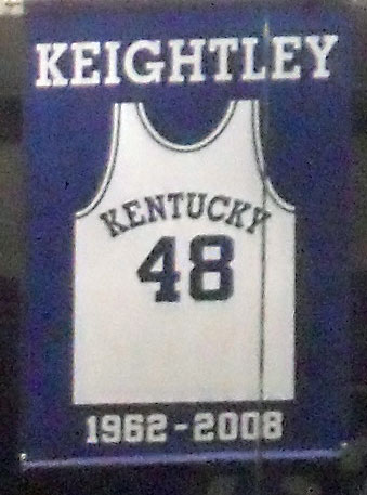 A jersey honoring long-time Kentucky Wildcats equipment manager Bill Keightley